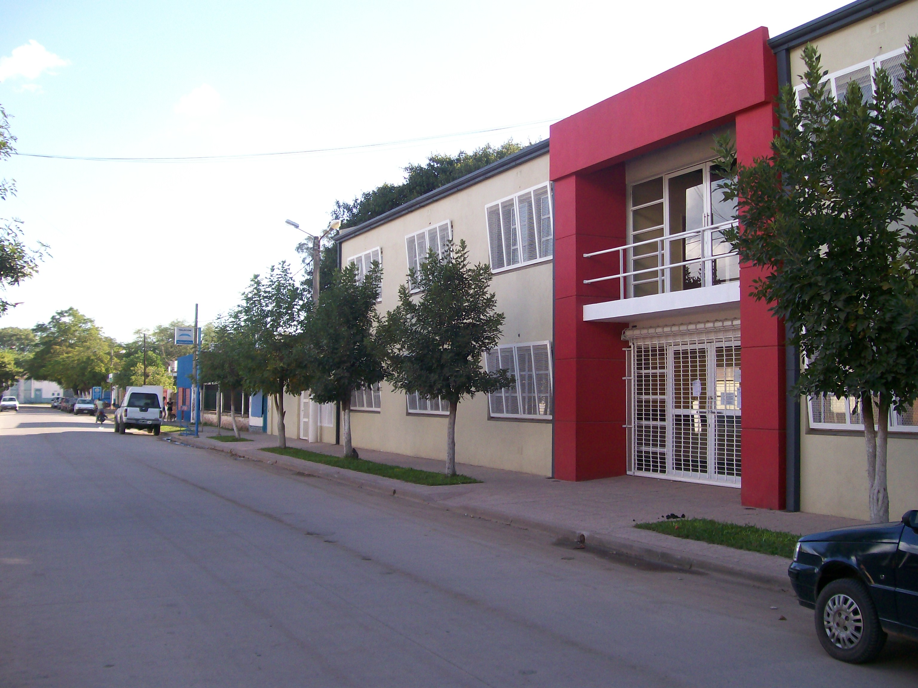 Municipality of Fontana, Chaco Prov., Argentina.